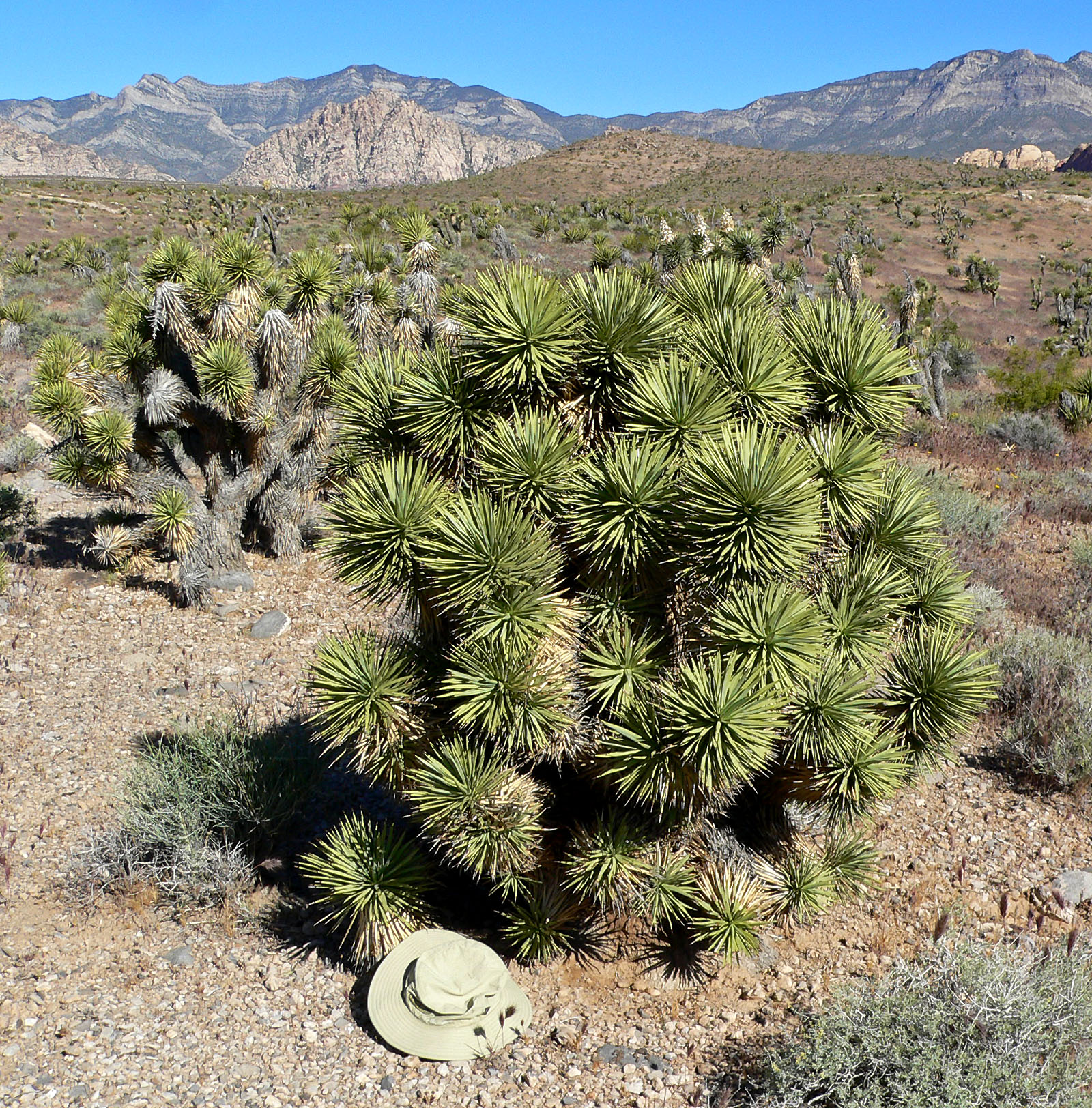 Photo of a rather short and bushy Yucca brevifolia in Red Rock Canyon, Nevada